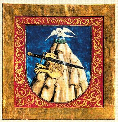 Coat of arms of Balthasar Batthyány ( - 1590)